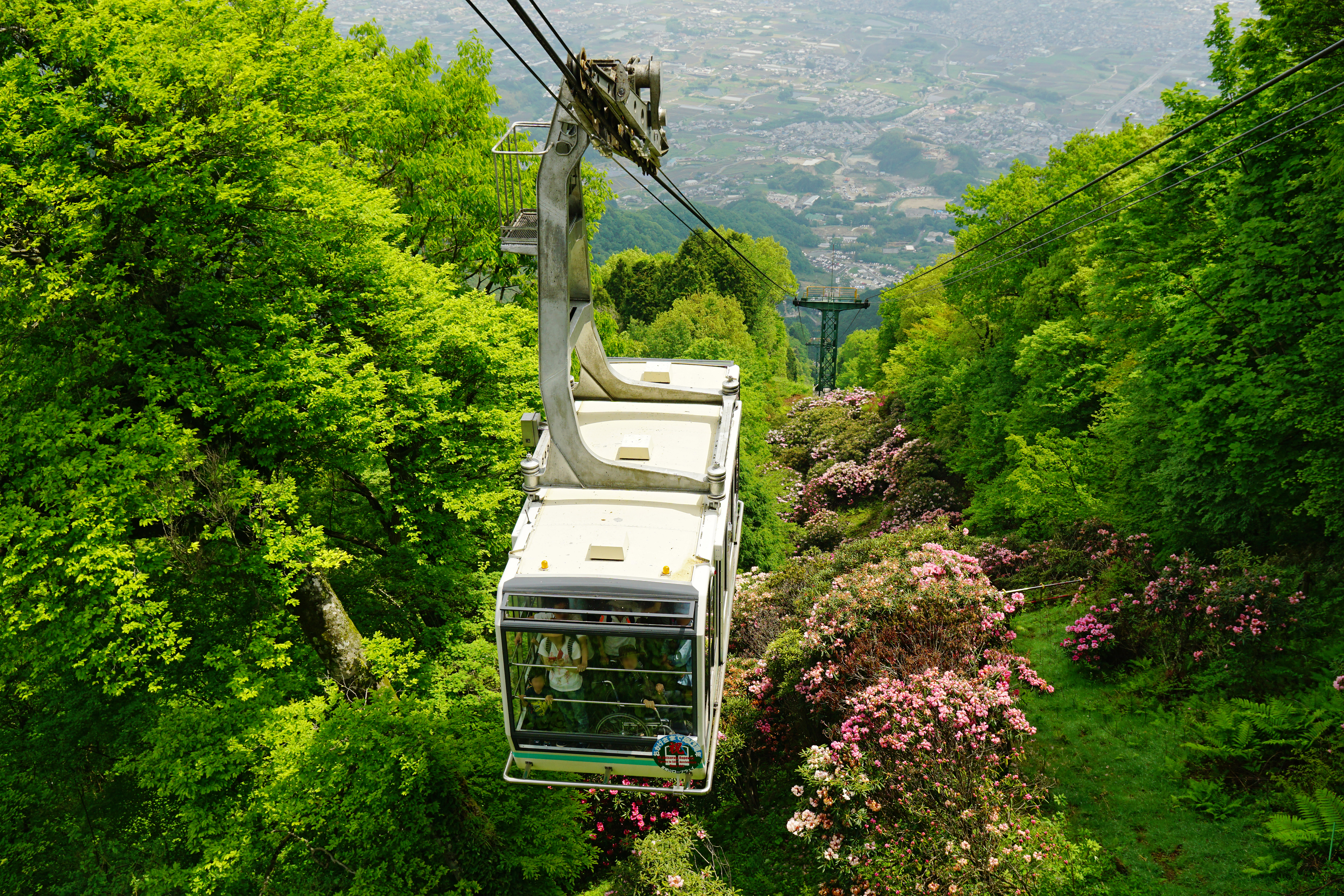 Kintetsu Katsuragi Ropeway Line in Gose, Nara Prefecture, Japan